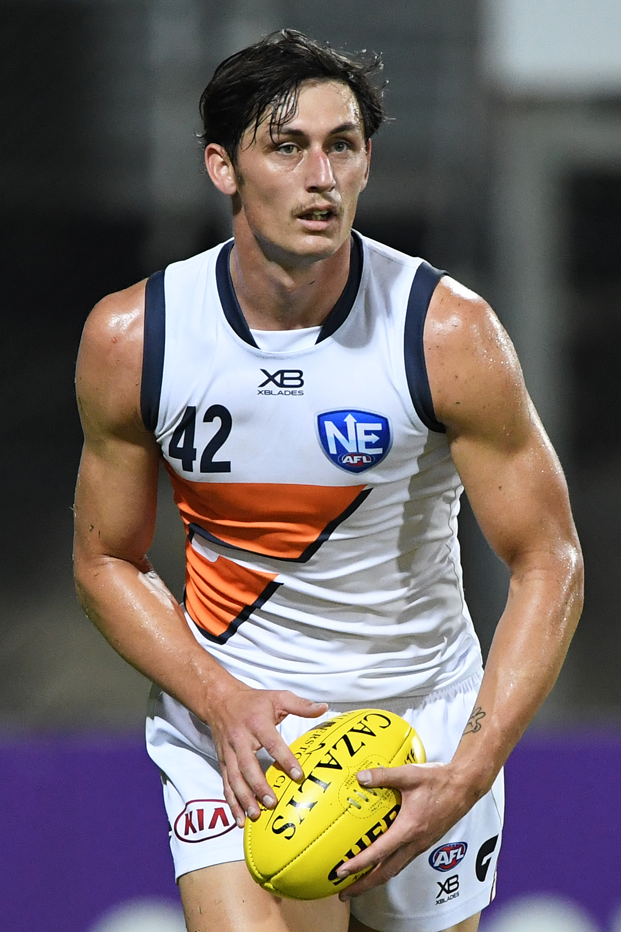 Jake Stein of Greater Western Sydney during the 2019 NEAFL round 15 match between NT Thunder and Greater Western Sydney at TIO Stadium on Saturday, 13 July 2019 in Darwin, Australia.